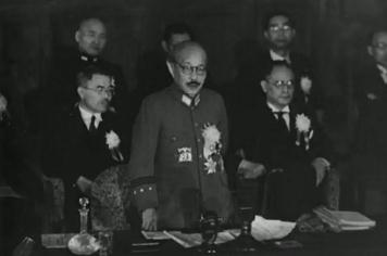 Scene from Japanese newsreel (Tokyo Conference, 1943). Speech by japanese prime minister Hideki Tojo.